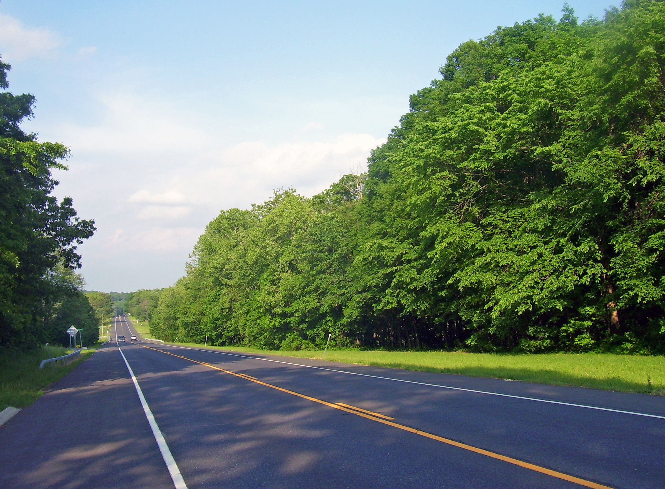 Looking east along NY 299 east of New Paltz, NY, USA